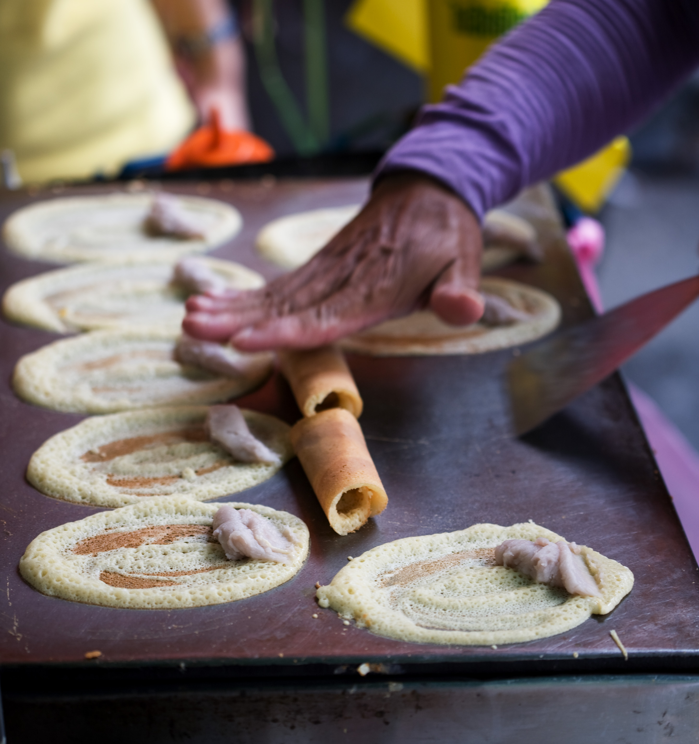 Kanom Tokyo -- sweet crispy pancake with coconut custard.